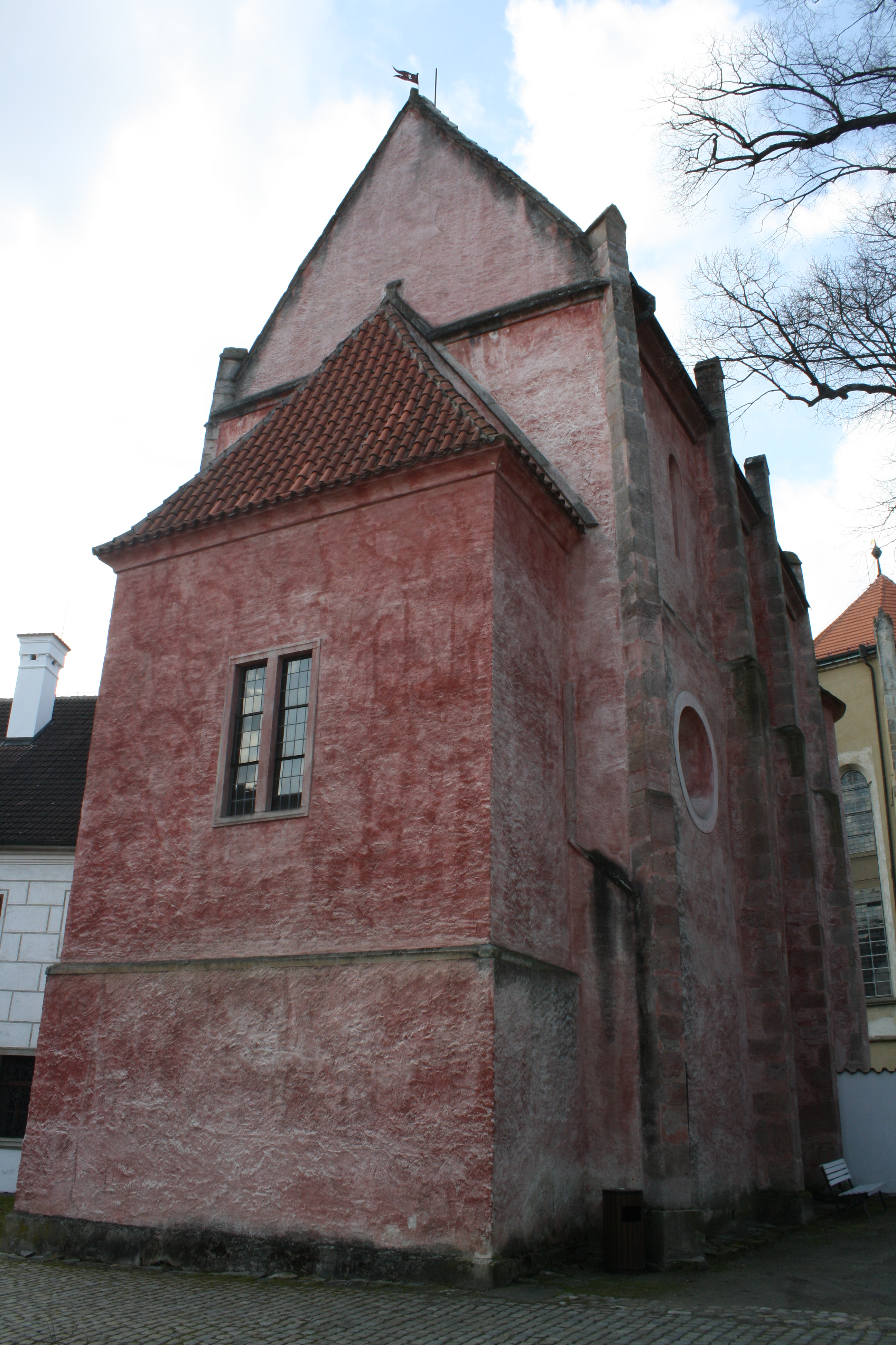 Zlatá Koruna